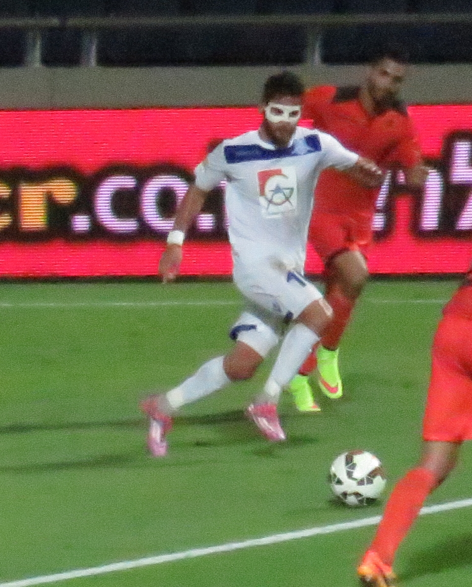 Bnei Yehuda Tel Aviv vs. Hapoel Acre - August 31, 2015